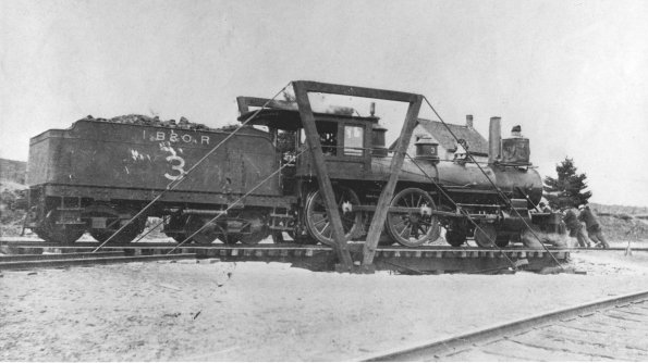 A track crew manhandles the Irondale, Bancroft & Ottawa Engine #3 on the turntable at Howland Junction, the eastern end of the line where it connected with the Victoria Railway. IB&O#3 4-4-0 was the replacement for #2, which had been wrecked in 1902. In 1917, #3 was sold to the Key Valley Railway near Perry Sound.